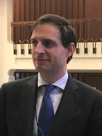 Wopke Hoekstra in Washington, April 2018